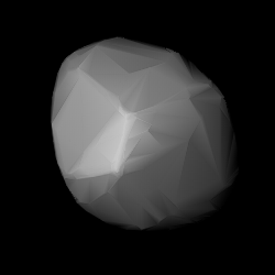 3D convex shape model of 873 Mechthild, computed using light curve inversion techniques. J. Hanuš, J. Ďurech, M. Brož, B. D. Warner (June 2011). "A study of asteroid pole-latitude distribution based on an extended set of shape models derived by the lightcurve inversion method". Astronomy and Astrophysics 530: A134. ISSN 0004-6361. arXiv